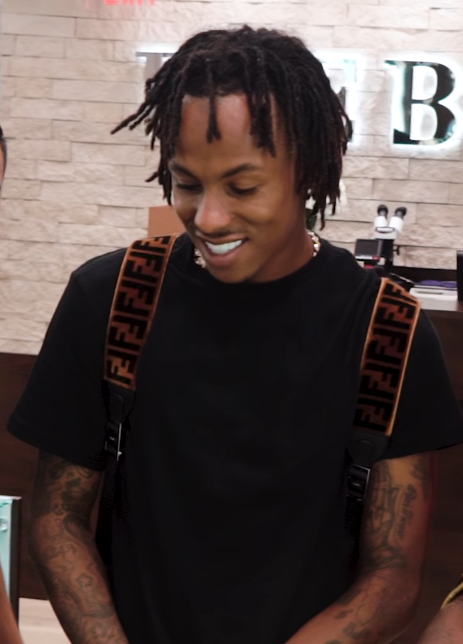 Rich the Kid in 2018